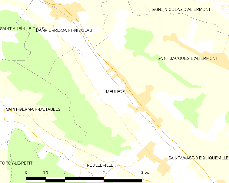 Map of French municipality Meulers